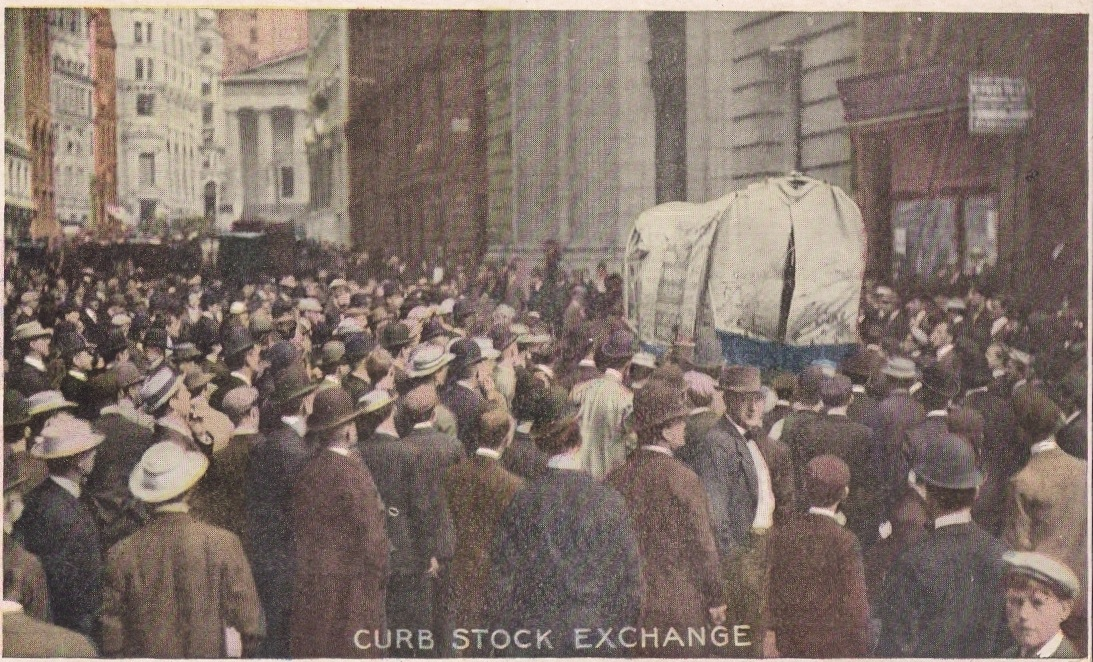 Ezra Meeker with his team in Wall Street, New York